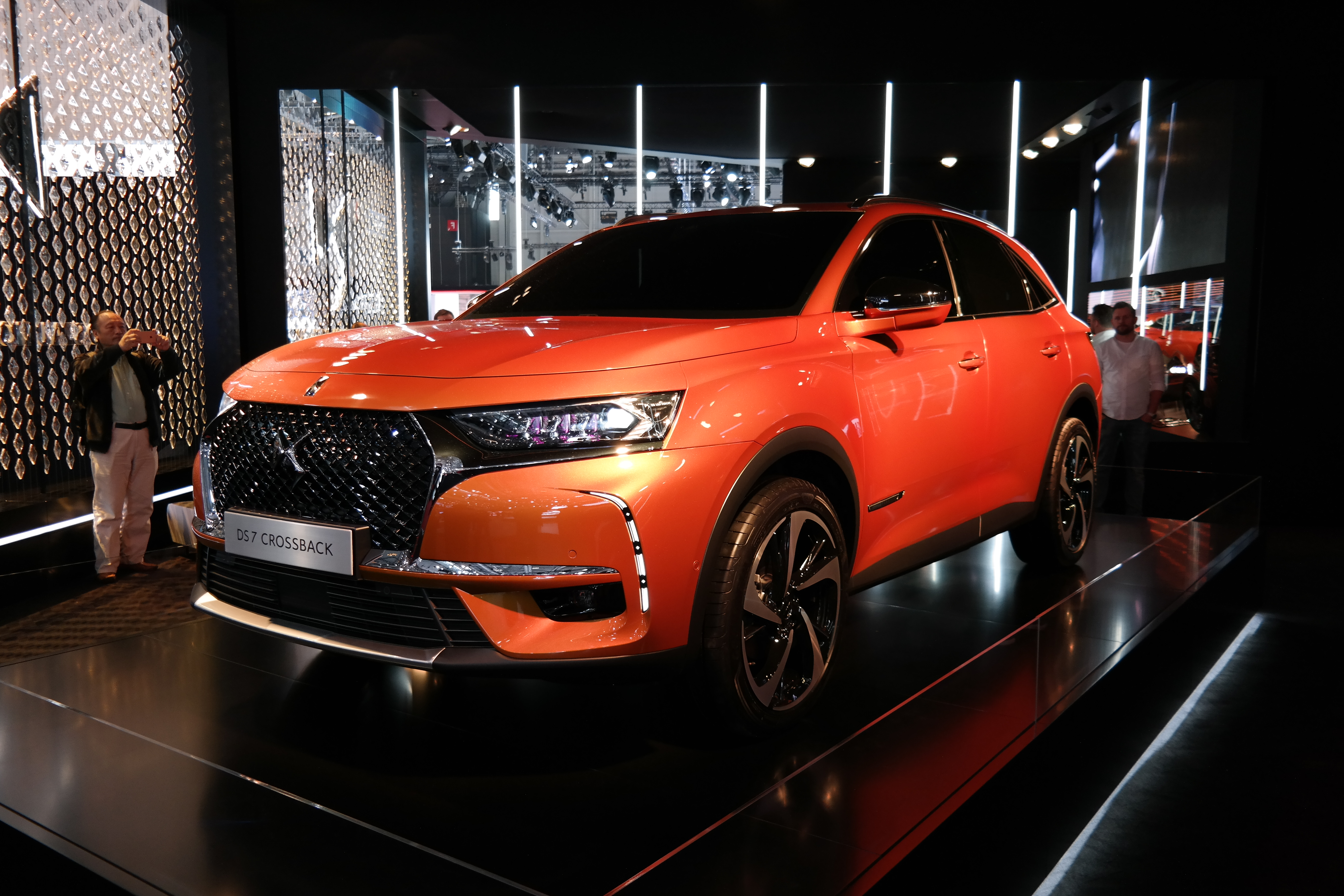 Geneva Motor Show 2017 (photo taken on the first press day)